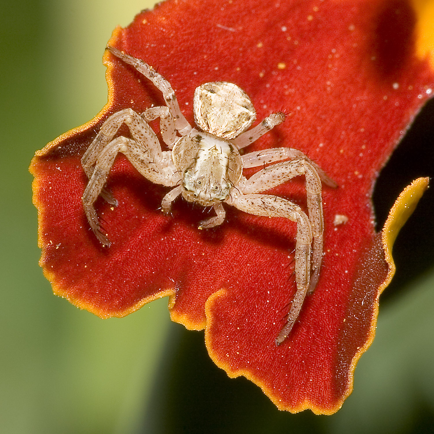 Crab spider, Xysticus species. Image taken in Dresden (Saxony, Germany).